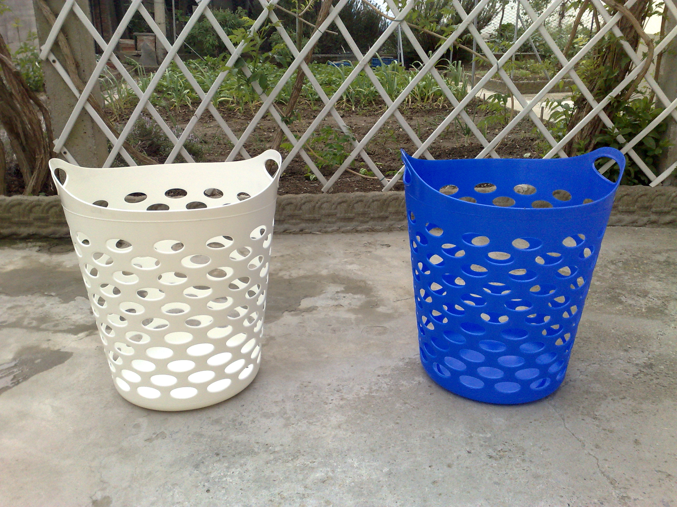 Rubbish baskets for curbside waste collection